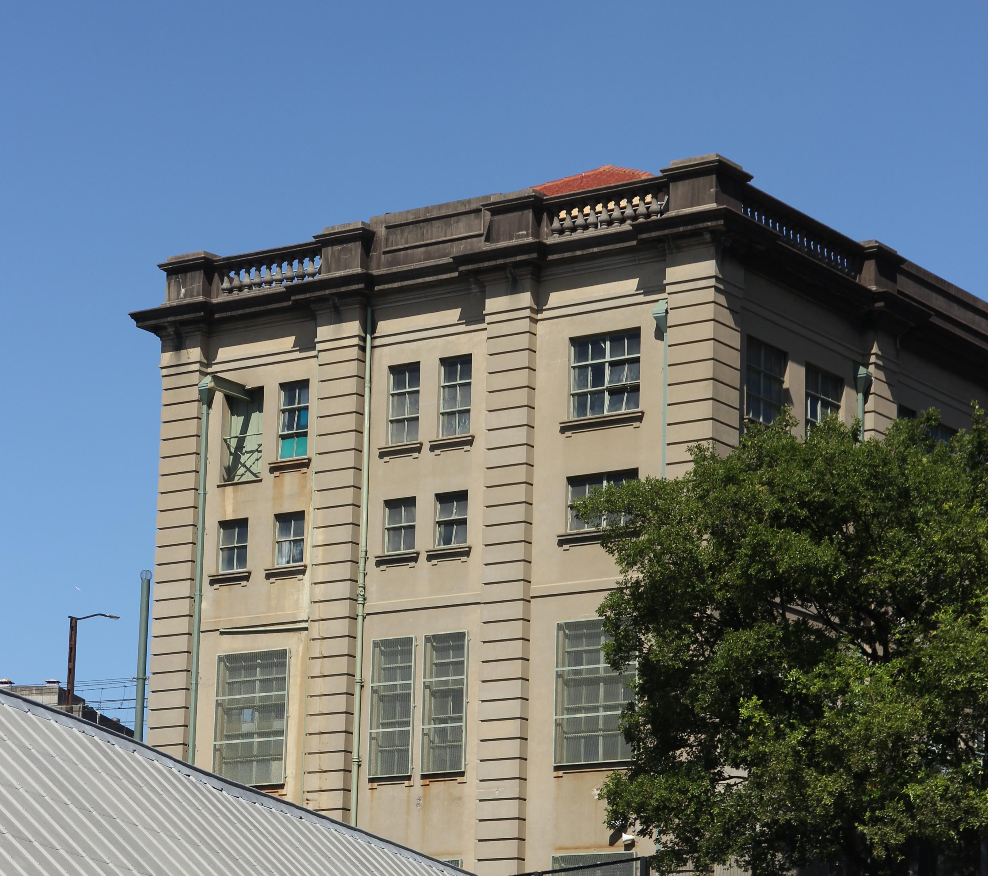 Argyle Street Railway Substation, Trinity Avenue, Millers Point in the City of Sydney, New South Wales, Australia